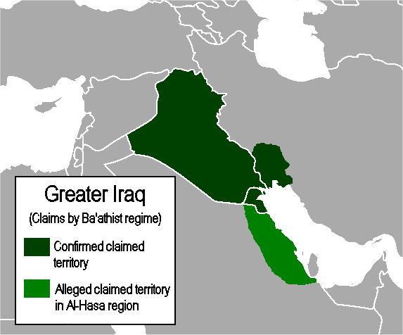 Greater Iraq as claimed by the Ba'athist regime in Iraq, particularly under Saddam Hussein. The dark green shows territories confirmed to be claimed by Ba'athist Iraq, including Khuzestan and Kuwait. The lighter green shows the alleged claim by Ba'athist Iraq to the Al-Hasa region. It has been claimed that during the Gulf War Iraq had mobilized its army on the border between annexed Kuwait and Saudi Arabia, to invade the oil-rich Al-Hasa region and force Saudi Arabia to have it annexed to Iraq based on the historic holding of Al-Hasa in the Ottoman province of Basra whose capital was in Iraq. This claim has not been clearly confirmed.